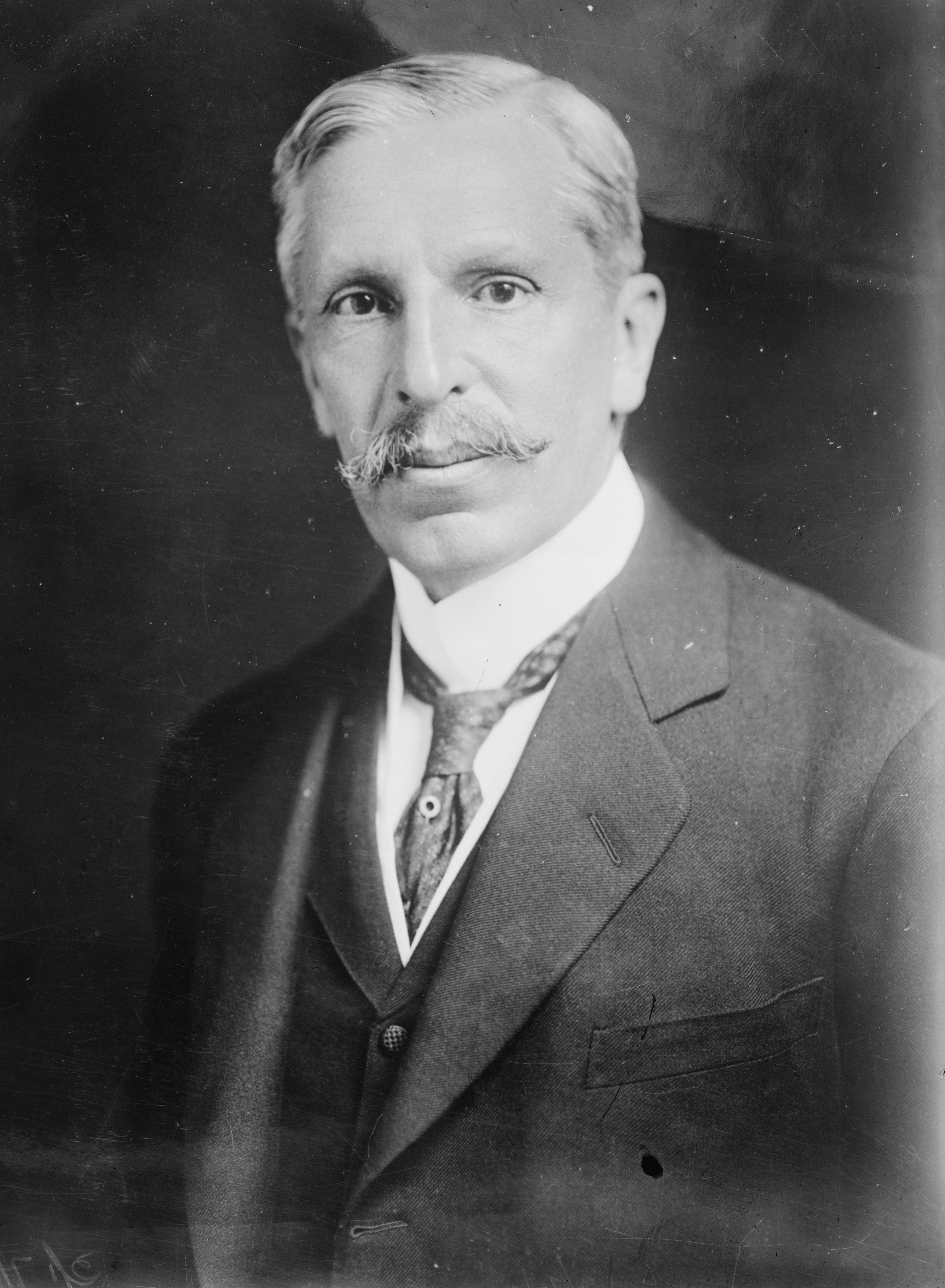 Pedro Lascuráin, former Mexican president.